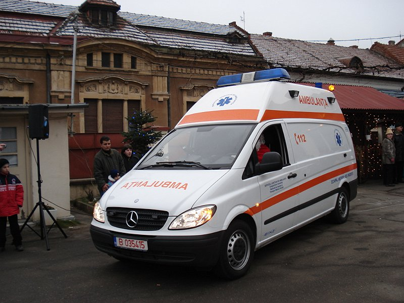 A Mercedes Vito ambulance in Romania, with "AMBULANTA" in mirror writing ("ATNALUBMA").